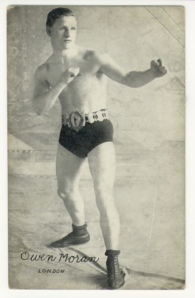 Photograph of Owen Moran, an English boxer